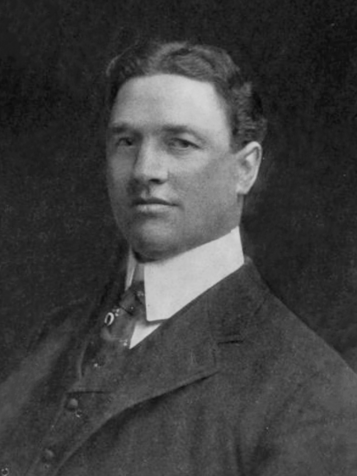 Edmond Spencer Blackburn (1868-9-22 – 1912-7-21), U.S. Congressman from North Carolina (1901-1903, 1905-1907).